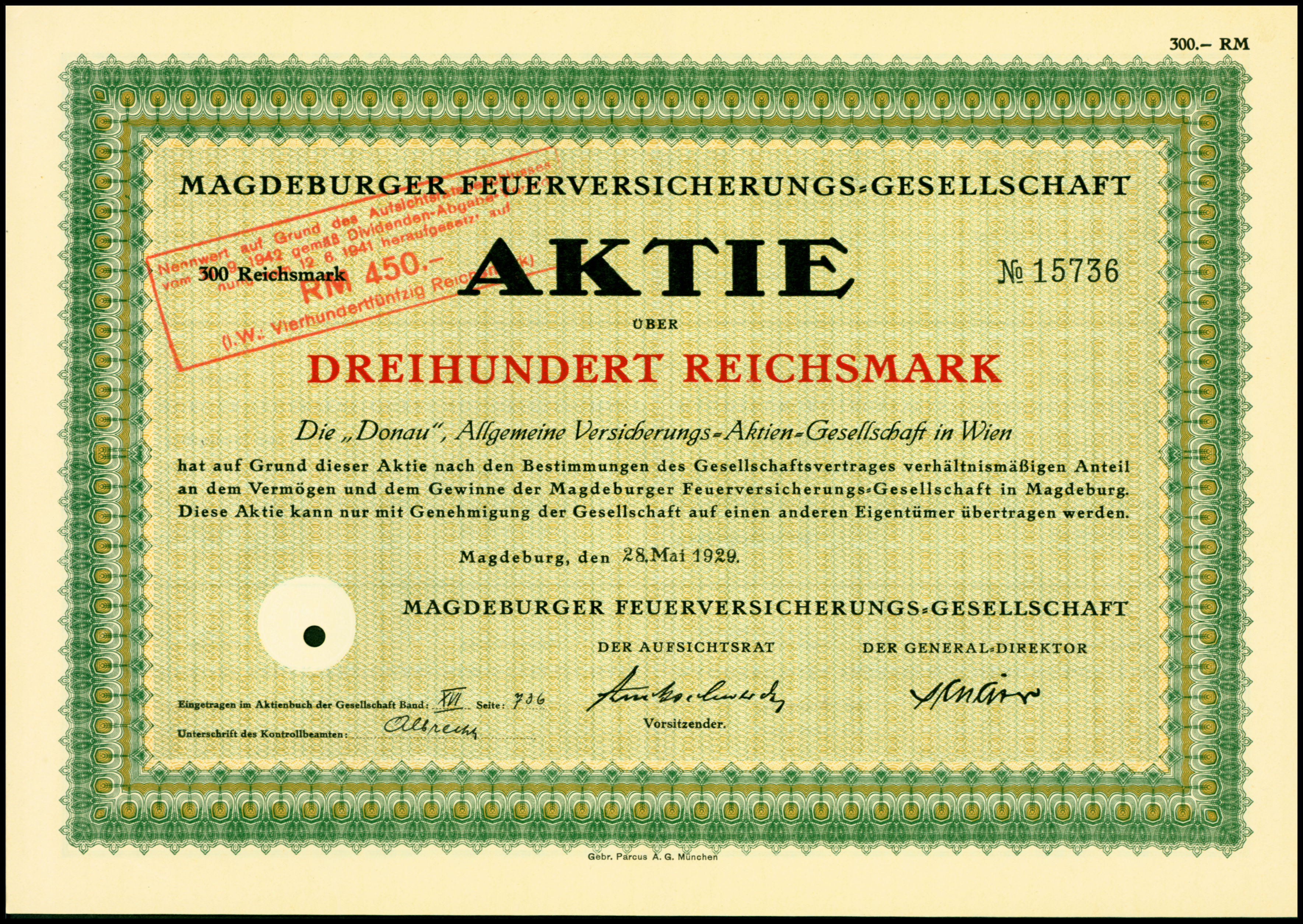 Share of the Magdeburger Feuerversicherungs-Gesellschaft, issued 28. May 1929